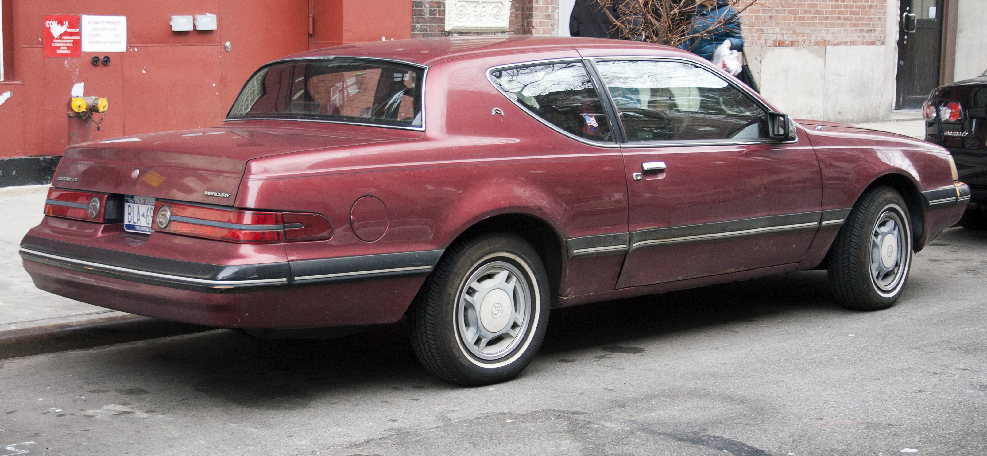 Rear view of 1988 Mercury Cougar